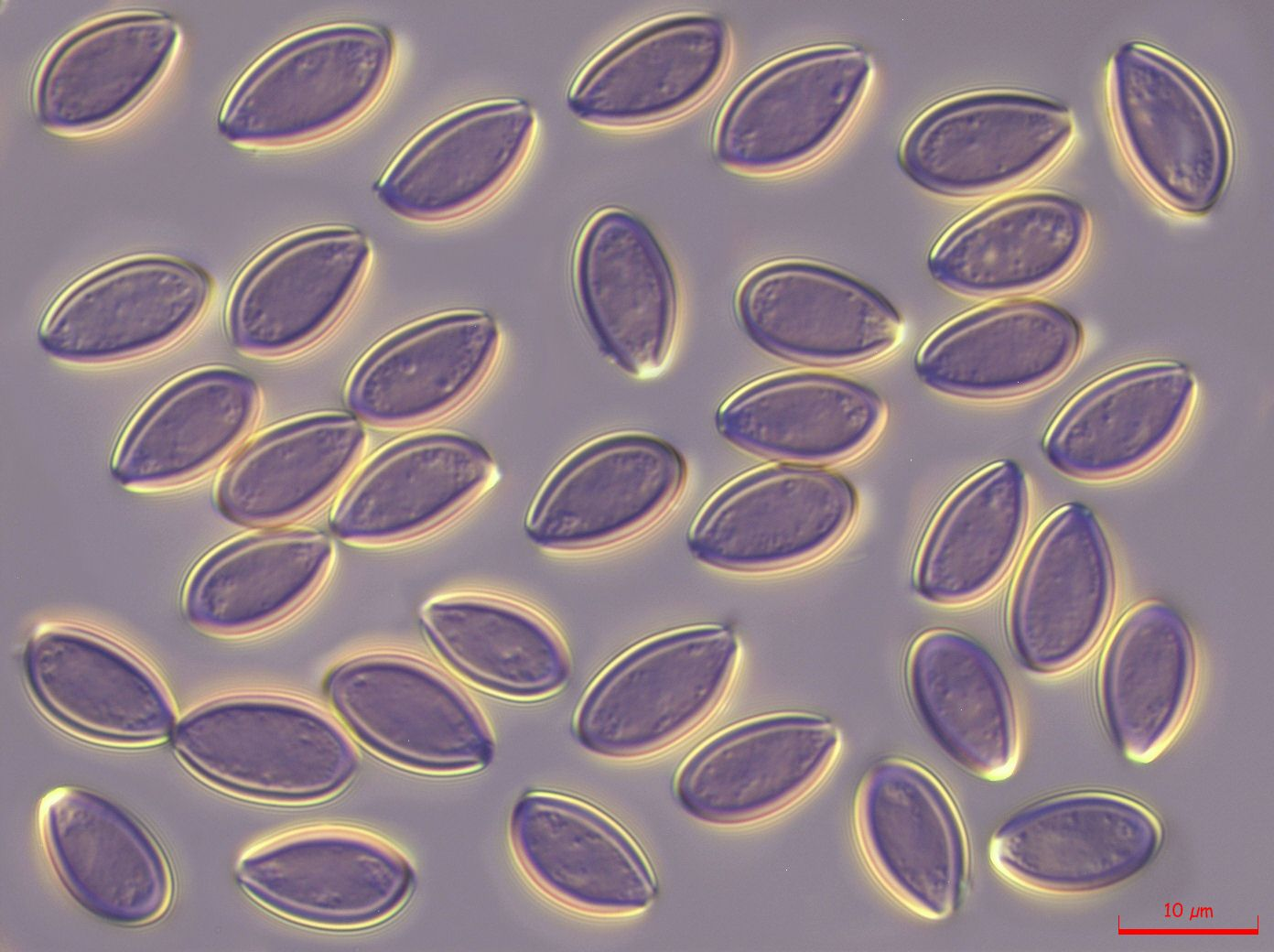 Psilocybe allenii spores 1000x DIC Micrograph From